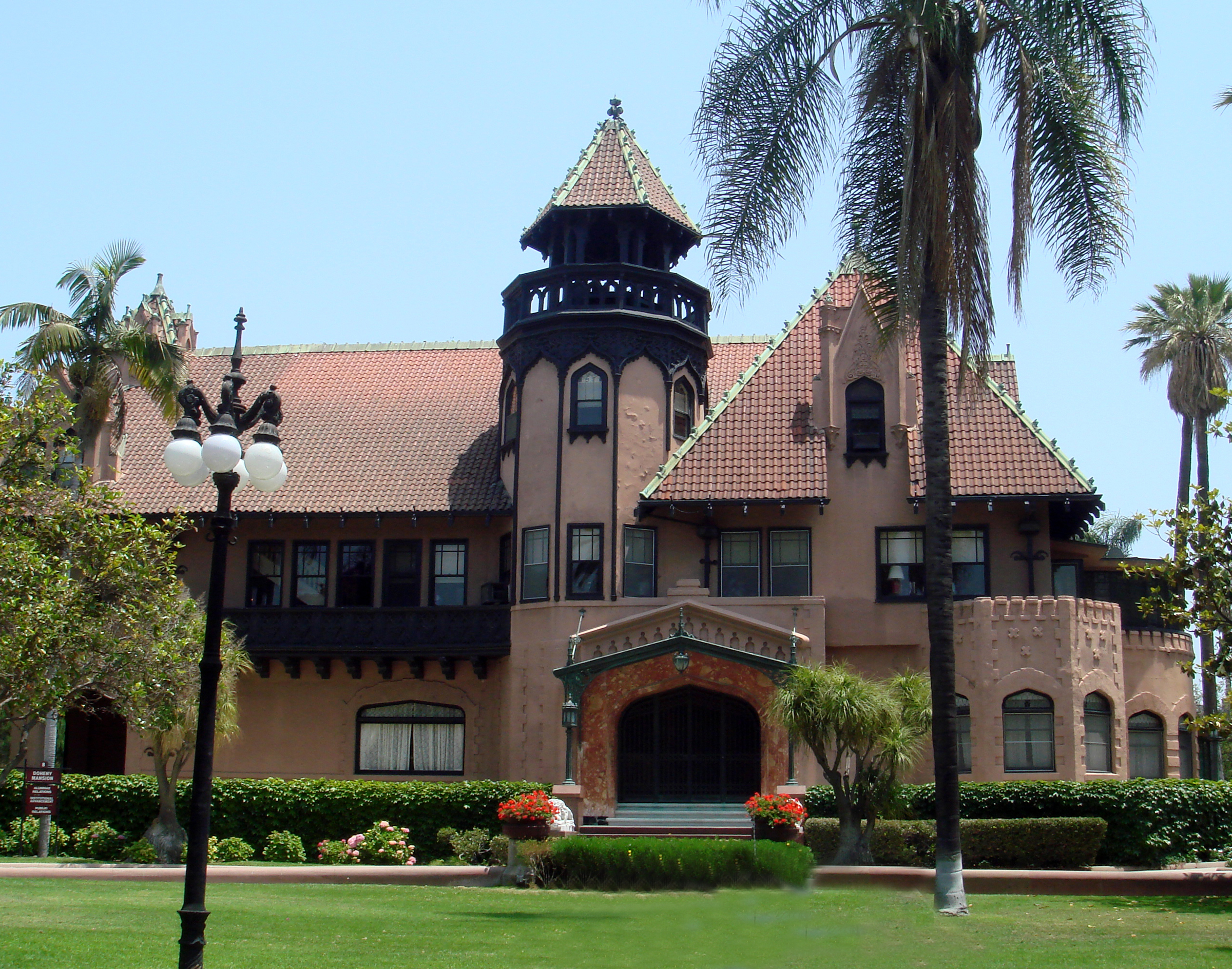 The Doheny Mansion, centerpiece of Mount St. Mary's College's Doheny Campus in Los Angeles, California